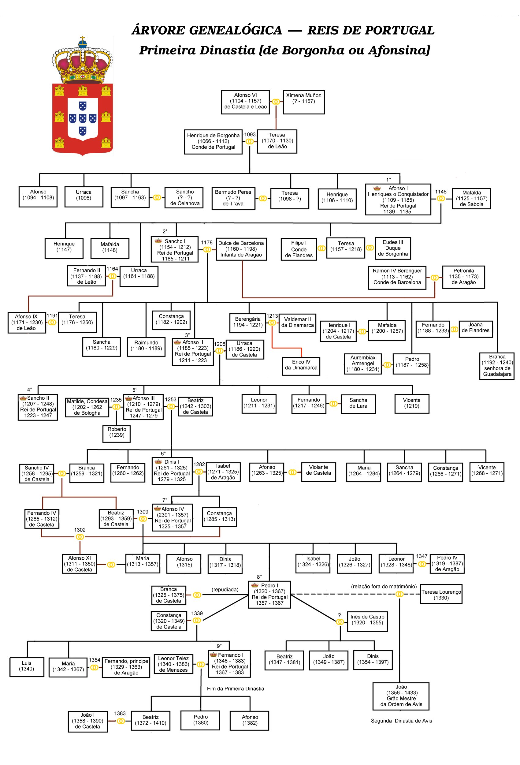 Genealogical tree of the first dynasty of the Portugal Kings.